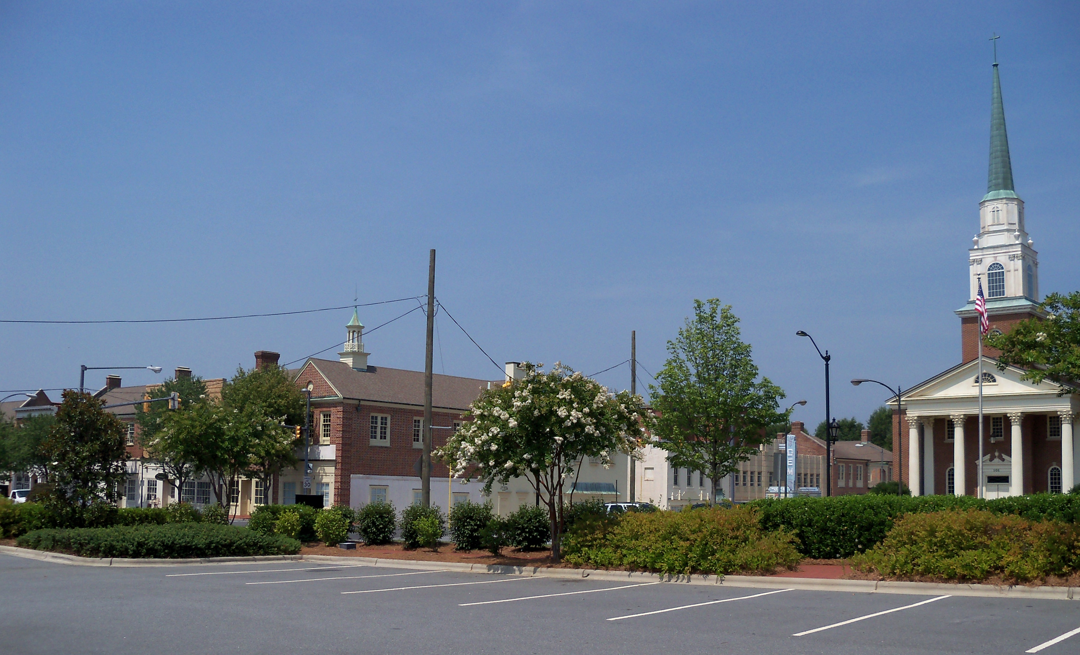 Buildings in Kannapolis, North Carolina, USA.